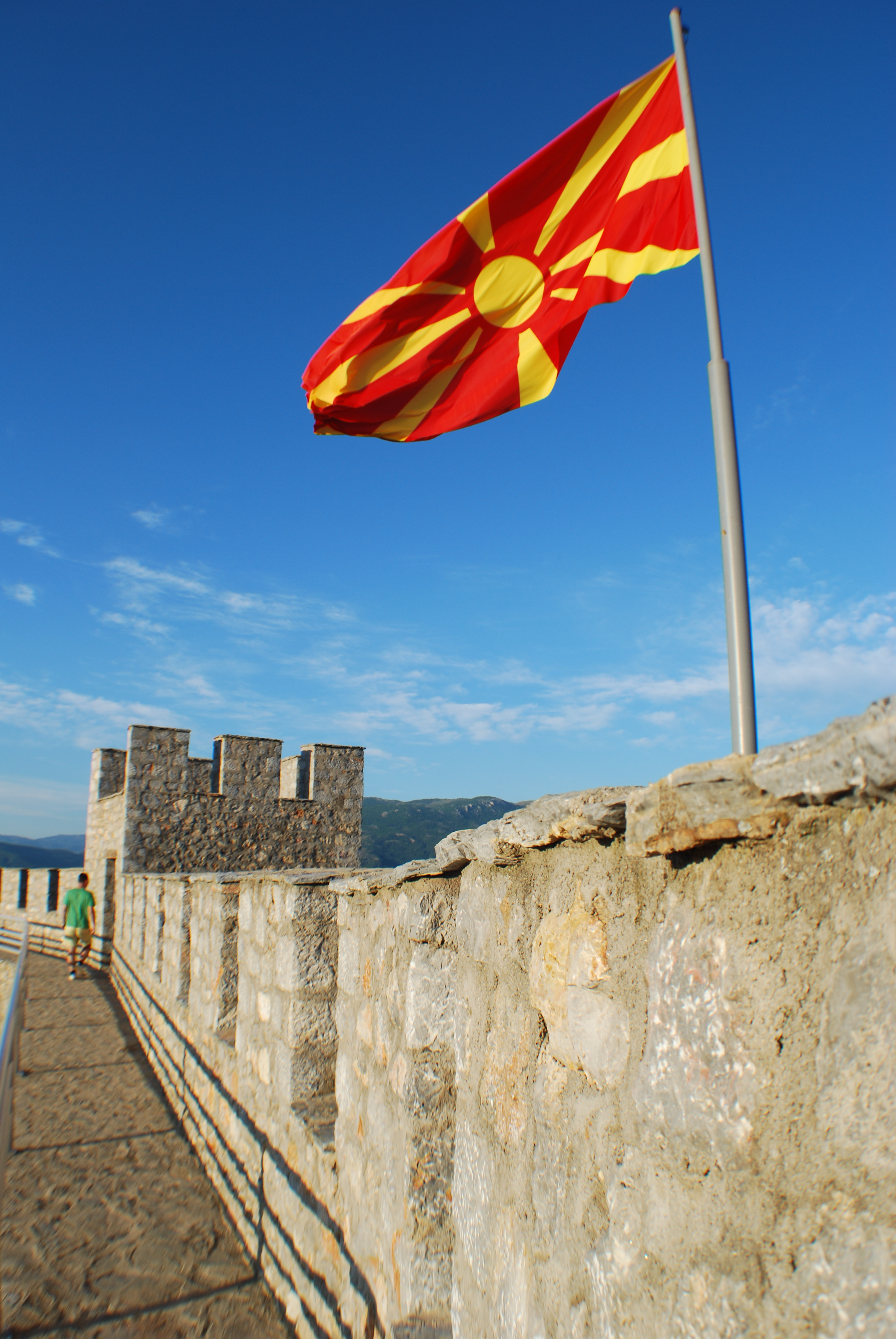 Macedonian flag in Samoil Fortress in Ohrid